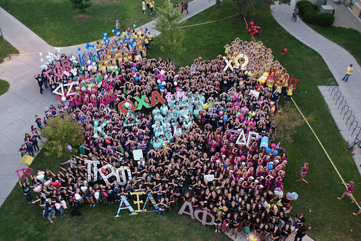 Members of the Panhellenic Council gather for a photo outside of the Student Union.